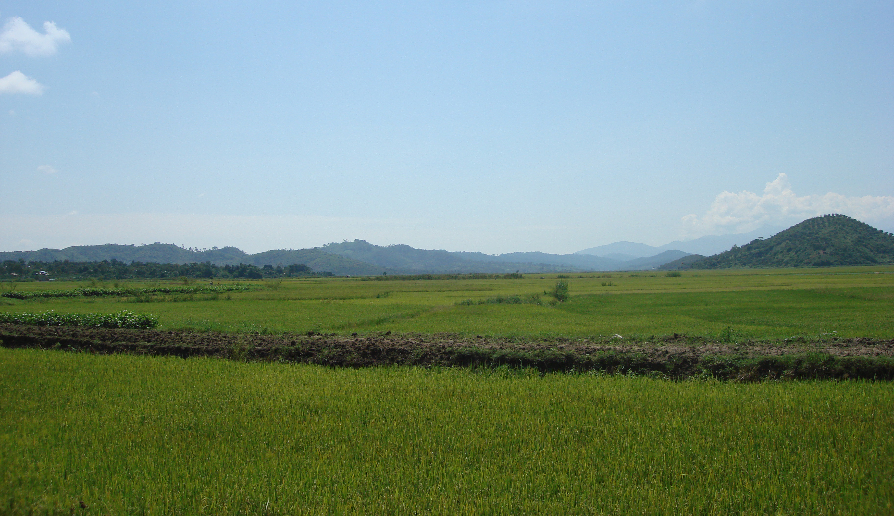 The field of Quang Dien committee